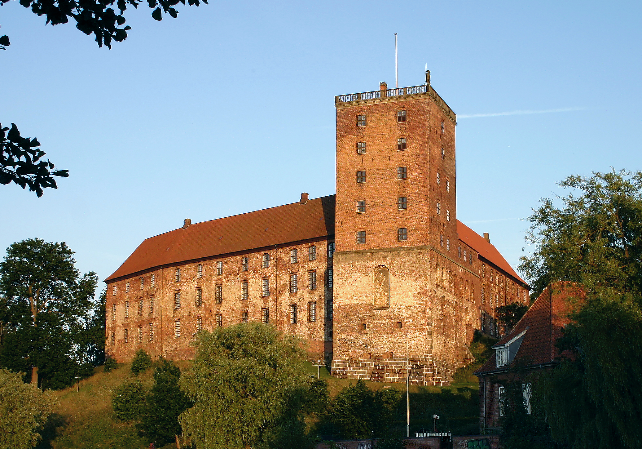 Koldinghus is a royal palace and a castle,built in the 1200s, it has played a significant role in Denmark's history: as a border guard, as a royal residence and the castle housed the local state administration. Throughout the Middle Ages, the location ment that Koldinghus, was one of the largest and most important castles.The night between 29th and 30 March 1808 a giant fire broke out. On the second day, a part of the Great Tower crashed down and Koldinghus was left as a ruin. In 1536, King Christian 3 (1536-59) became king and with his wife Dorothea, they started a complete change of Koldinghus. All medieval defense devices were removed and Koldinghus was rebuildt as a civil Castle, the residence of the king and his family in the western part of the kingdom. Over the last 100 years the ruin has been restored several times and is now museum of cultural history. In the early 1930s, the Great Tower to fall apart, but they managed to raise money for rebuilding the tower. It was not until the 1970s that the final, complete restoration of Koldinghus was begun. The restoration project was headed by the architects Inger and Johannes Exner